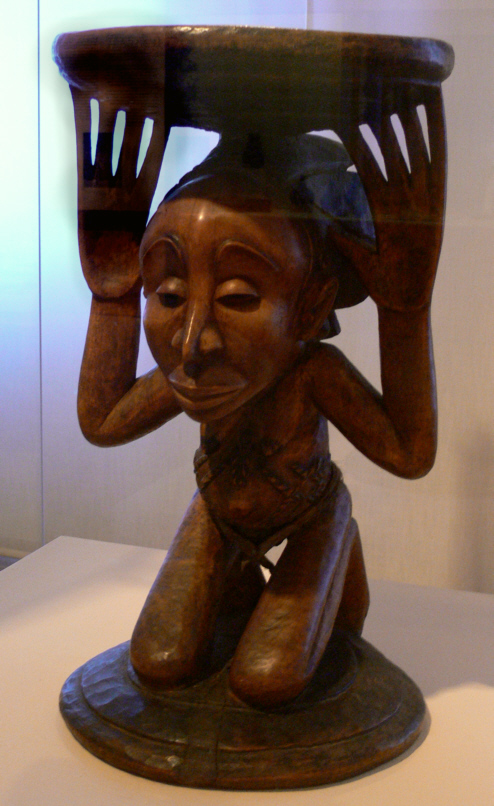 Stuttgart, Linden-Museum; Throne stool, wood, Luba (DR Congo), end of 19th century; Inv. Nr. 38229 (the women symbolizes the principle of matrilinear descendance that „holds“ the society)